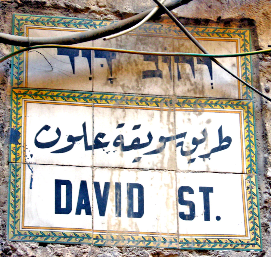 "DAVID ST." street sign in old Jerusalem